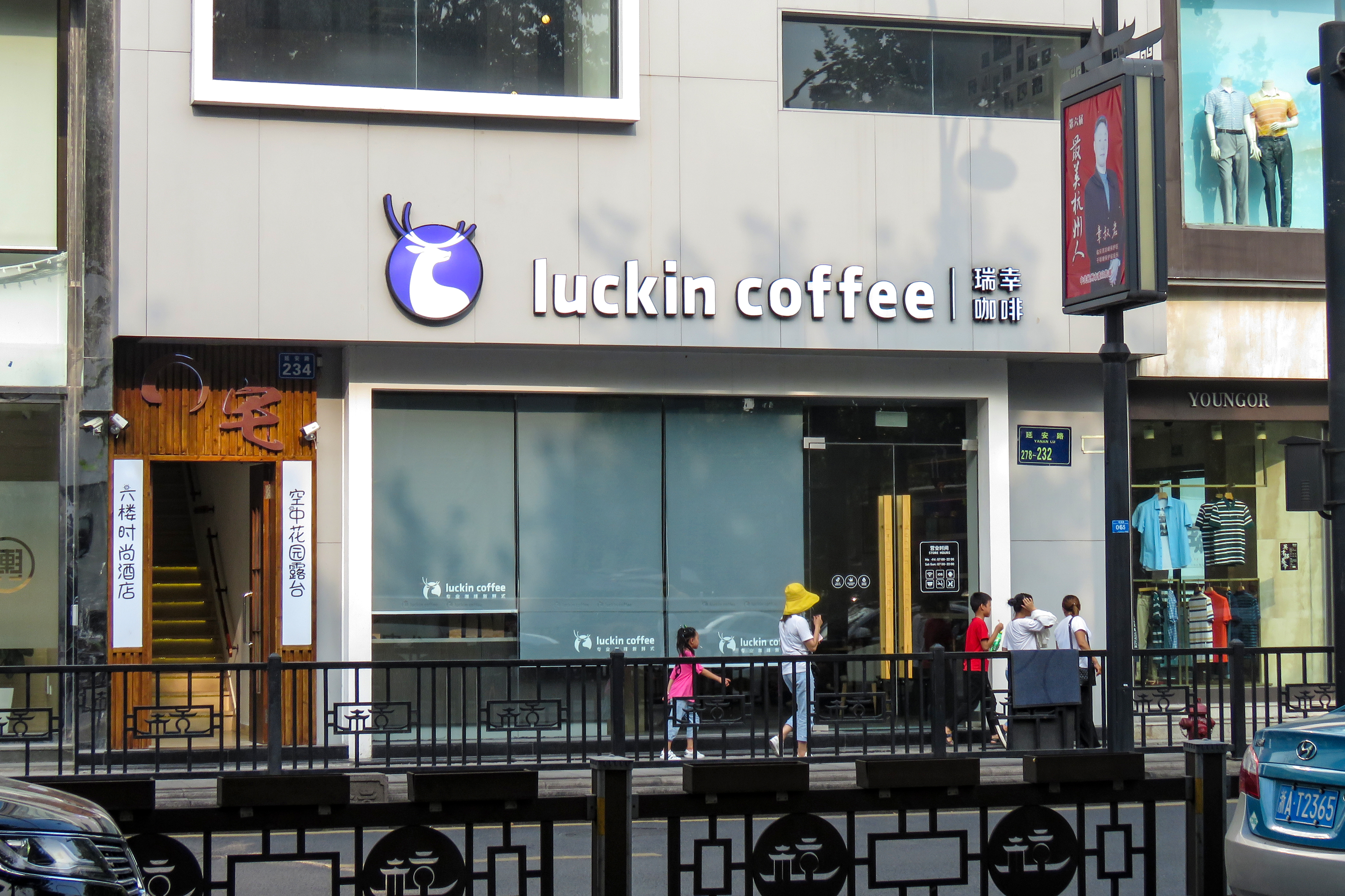 Established in 2017, its first shop opened in 2018, and the expansion is explicit in 2019.